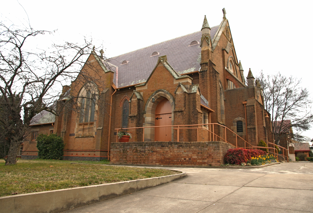 Photos of buildings of interest located in Orange, NSW, Australia St Johns Unting Church, Kite Street, Orange NSW Australia.